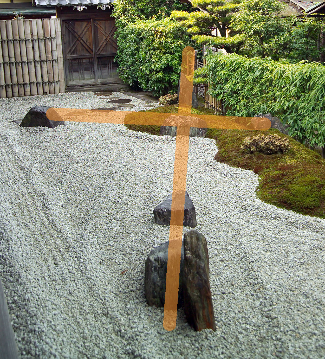 Garden of the Cross at Zuiho-in, a subsidiary temple of Daitoku-ji, Kyoto, Japan. Zuiho-in was established by the Christian daimyo Ōtomo Sōrin, who laid out the stones in this garden in the pattern of the Cross. I took this photo and release my rights in the file to the public domain; individuals and organizations retain rights to images in the file.